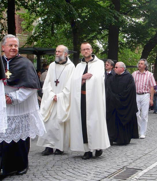 Monks trappisten West-Vleteren. Brugge, Procession of the Holy Blood